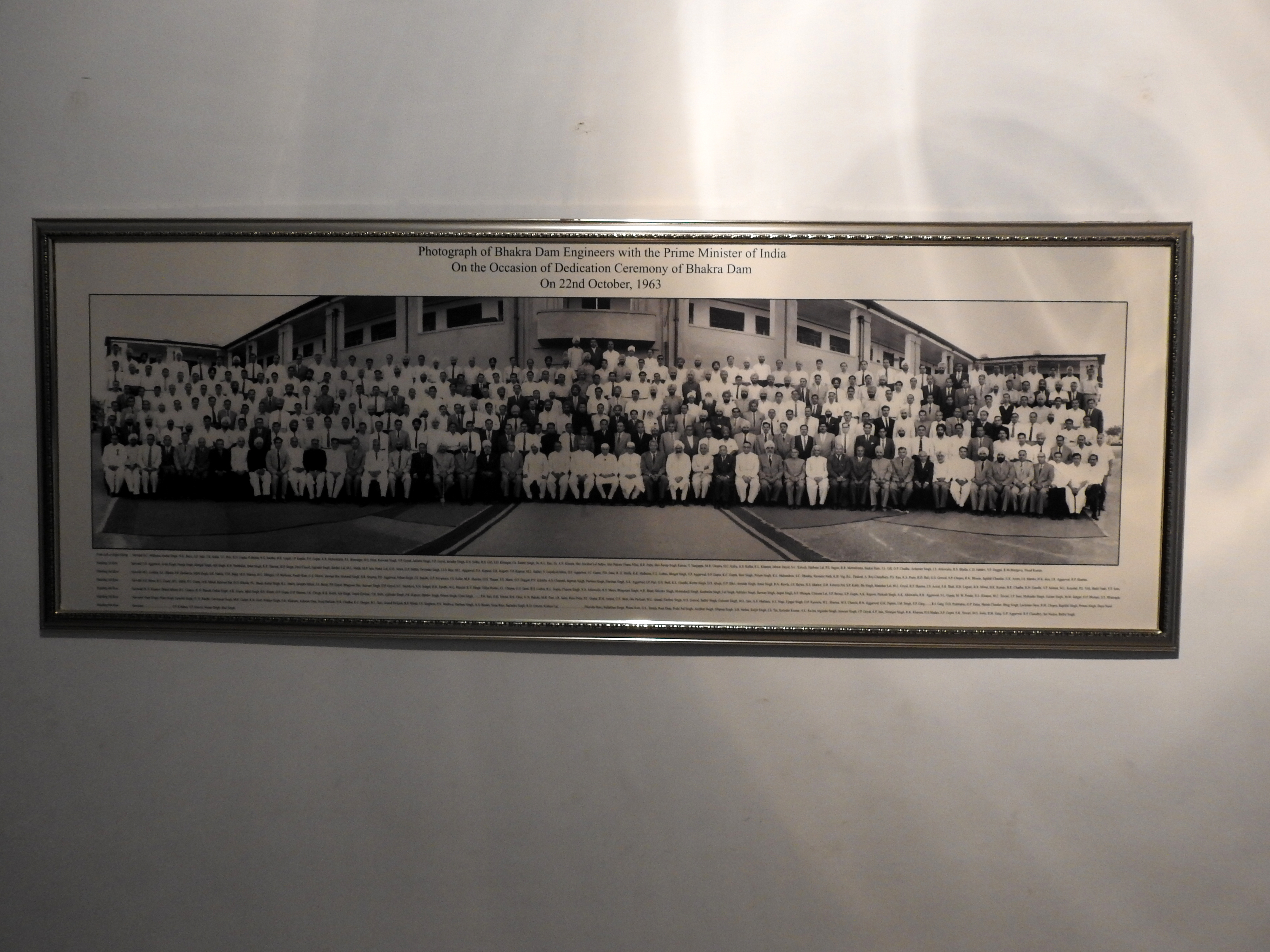 Pt. Jawaharlal Nehru with group of engineers who constructed Bhakra Dam.Bhakra The dam, located at a gorge near the upstream Bhakra village in Bilaspur district of Himachal Pradesh of height 226 m.Its length is 518.25 m and the width is 9.1 m. Its reservoir known as "Gobind Sagar" stores up to 9.34 billion cubic metres of water. The 90 km long reservoir created by the Bhakra Dam is spread over an area of 168.35 km2.Bhakra Dam was constructed at the initiative of Pt. Jawaharlal Nehru the first prime minister of India after Independence.